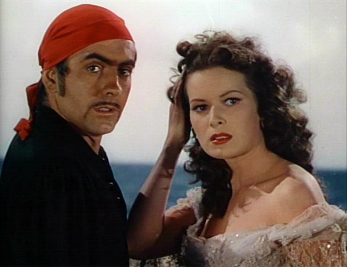 Tyrone Power and Maureen O'Hara in a screenshot from the trailer for the film The Black Swan.